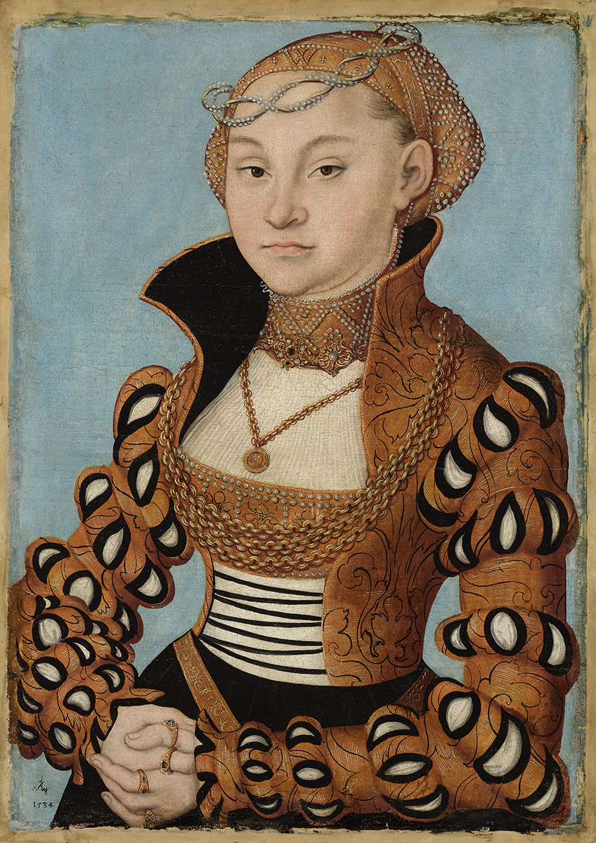 Possibly Portrait of Princess Maria of Saxony